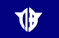 Flag of Isen Kagoshima